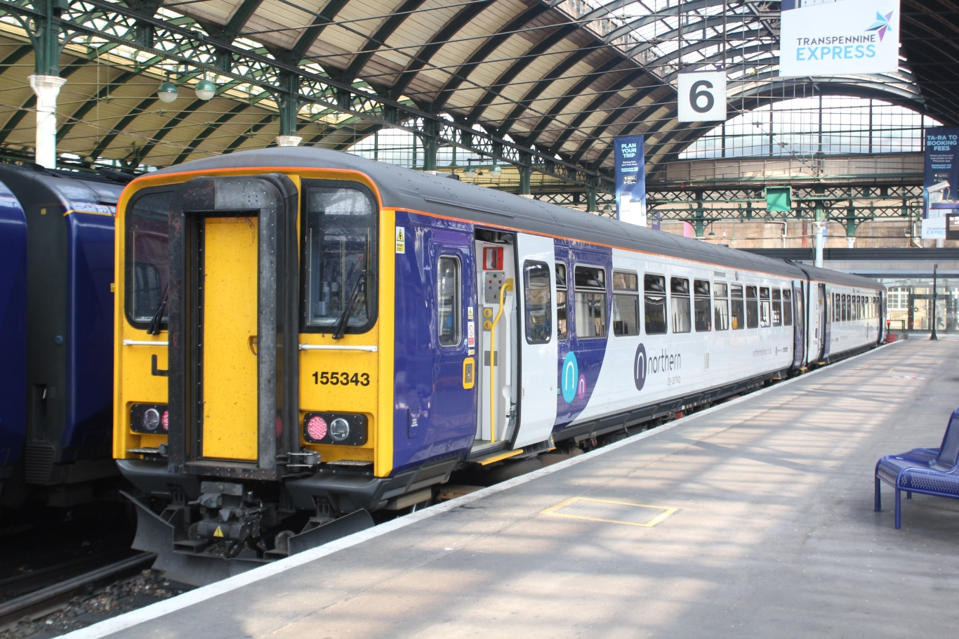 Northern diesel unit 155343 at Hull Paragon station in between workings on the Yorkshire Coast Line to Scarborough.